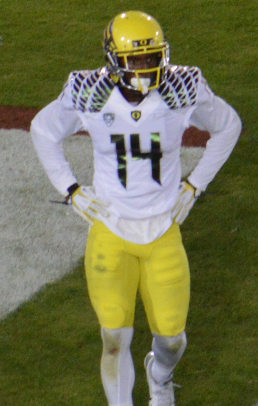 Stanford vs. Oregon football, 2013